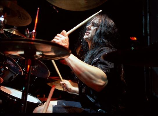 Swede drummer Adrian Erlandsson